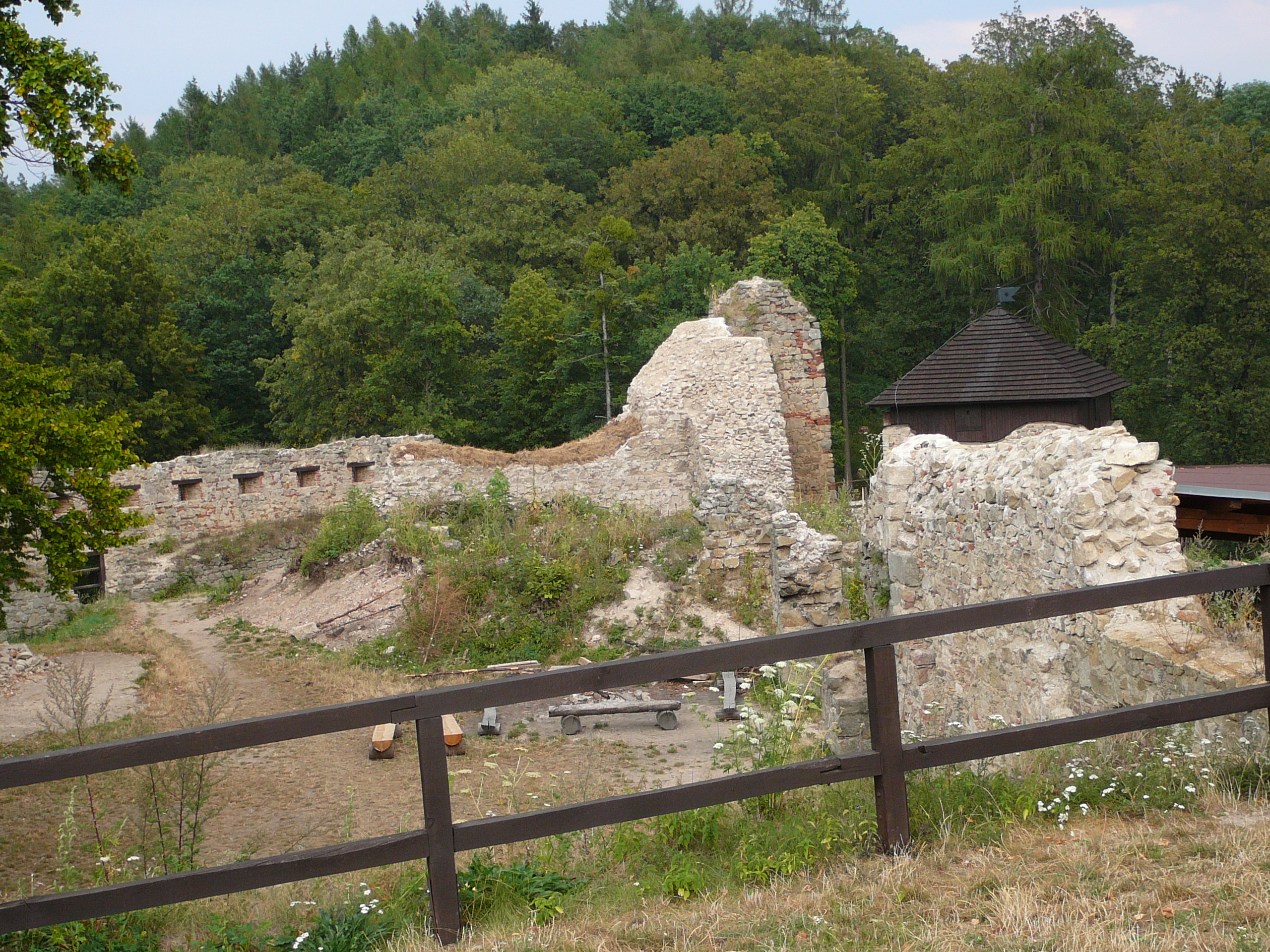 Castle Lukov